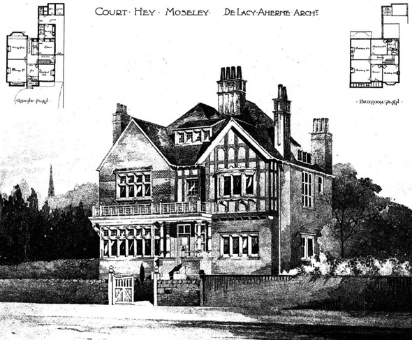 Drawing of Court Hey in Moseley, Birmingham by William de Lacy Aherne, published in The Building News, April 8th 1880